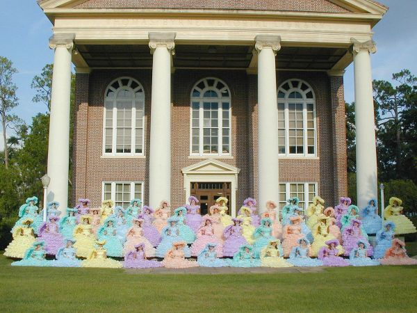 Azalea Trail Maids in front of Byrne Memorial Hall on the Spring Hill College campus in Mobile, Alabama.